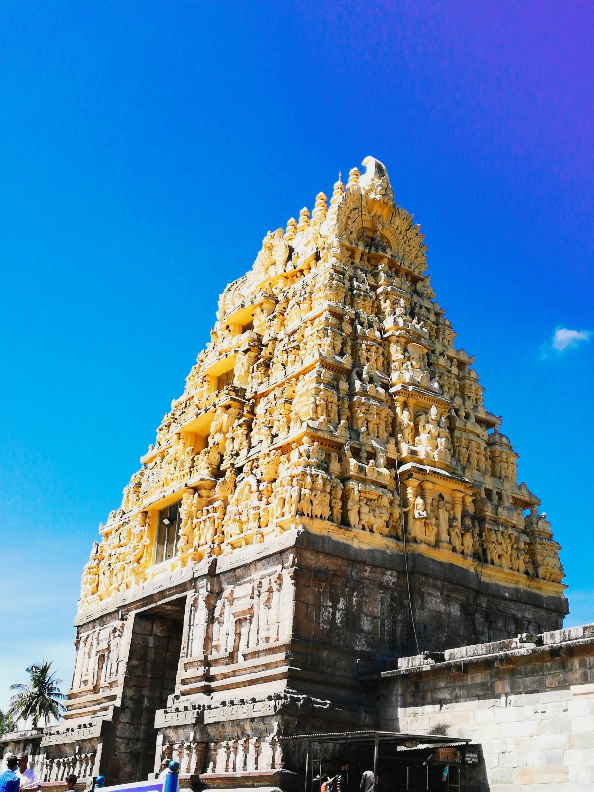 S-KA-368 Chennakeshava Temple Repeatedly damaged and plundered during wars , repeatedly rebuilt and repaired over its history, this 12th century Hindu Temple known as the Chennakesava Temple was built over three generations during the reign of Hoysala dynasty and took 103 years to finish.